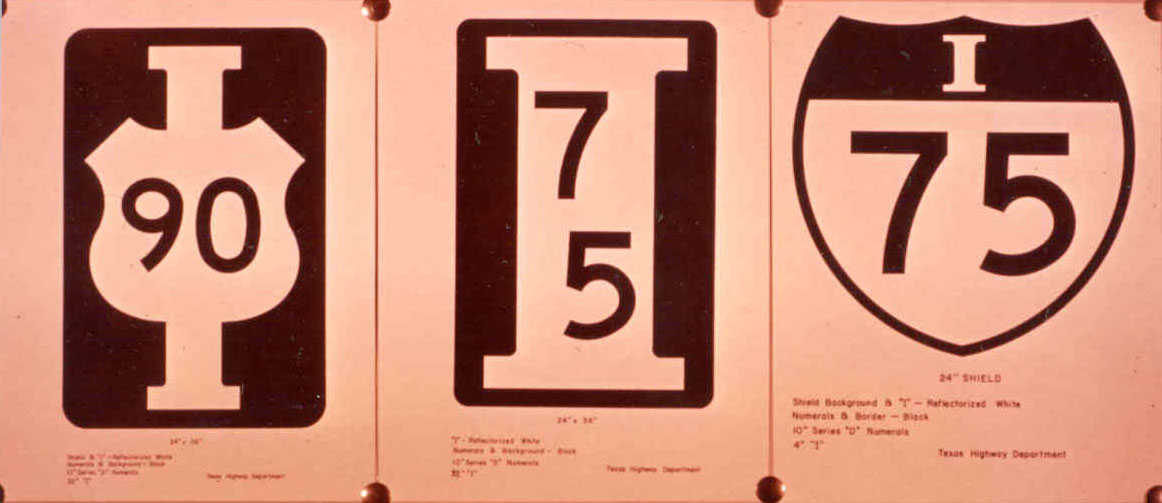 Interstate shields